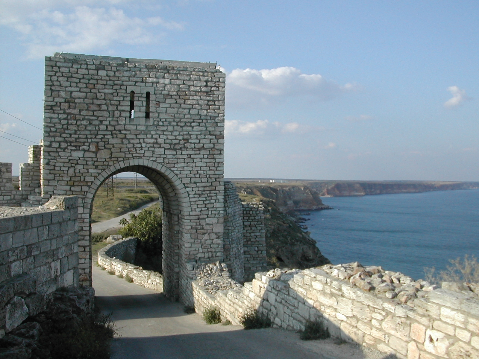 Kaliakra, Bulgaria, Fortress Gate and look to the north, 2003